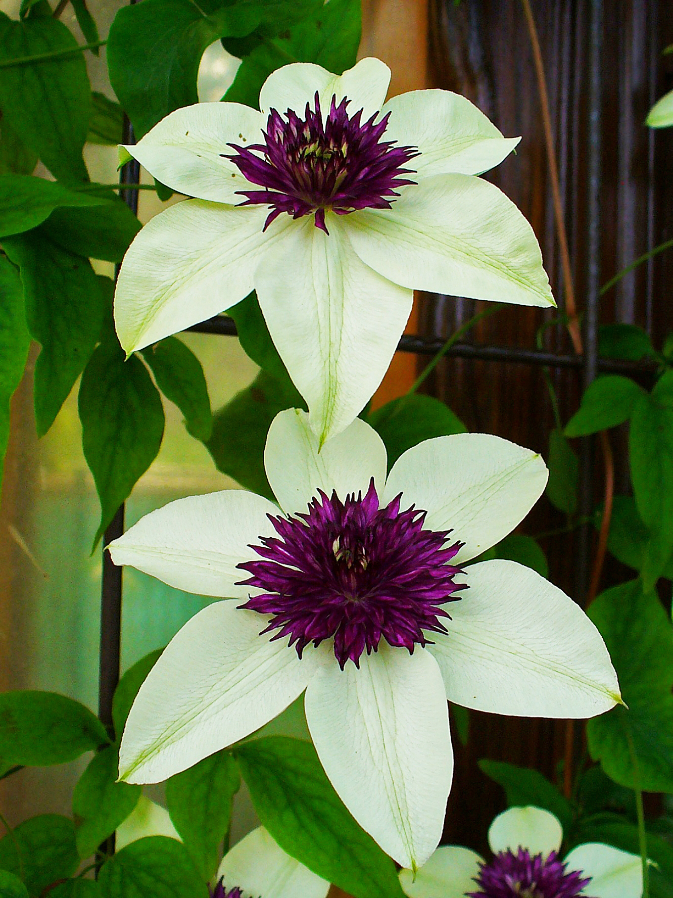 Clematis florida 'Sieboldii', Ranunculaceae, flowers; Karlsruhe, Germany.